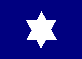 VIII Corps, Middle Department, 2nd Division Badge